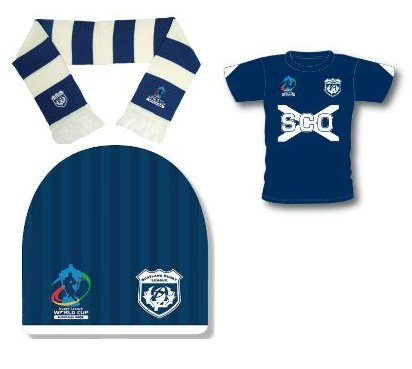 Scotland Rugby League merchandise for the 2008 World Cup.